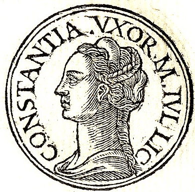 Flavia Julia Constantia (after 293 – c. 330), was the daughter of the Roman Emperor Constantius Chlorus and his second wife, Flavia Maximiana Theodora.